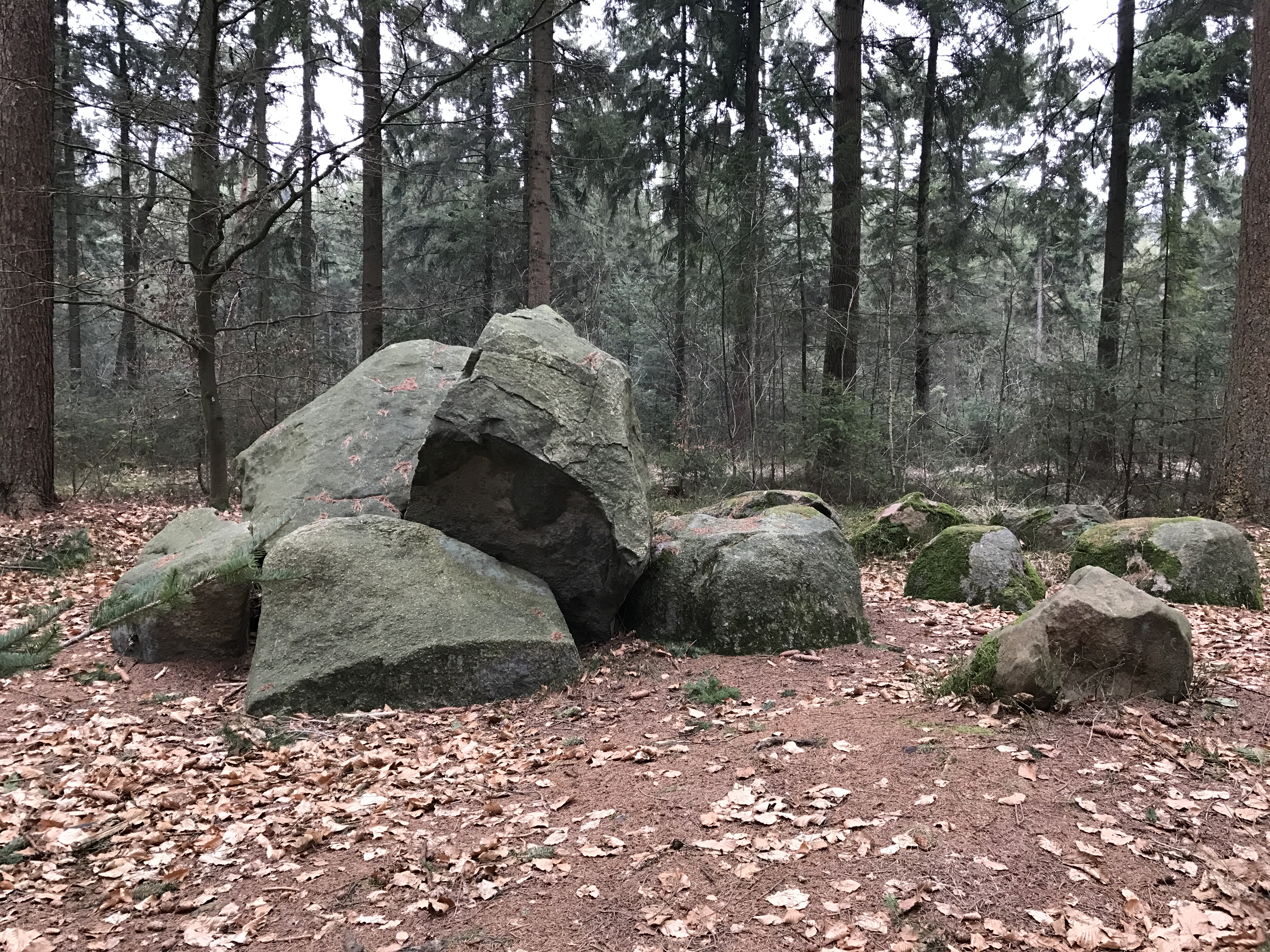 Megalithic Kronskark in Ahlen-Falkenberg, Lower Saxony, Germany